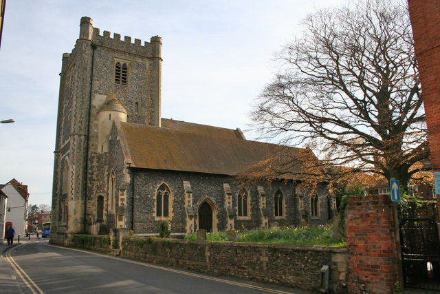 St Mary-le-More St Mary's looking from St Martins street.